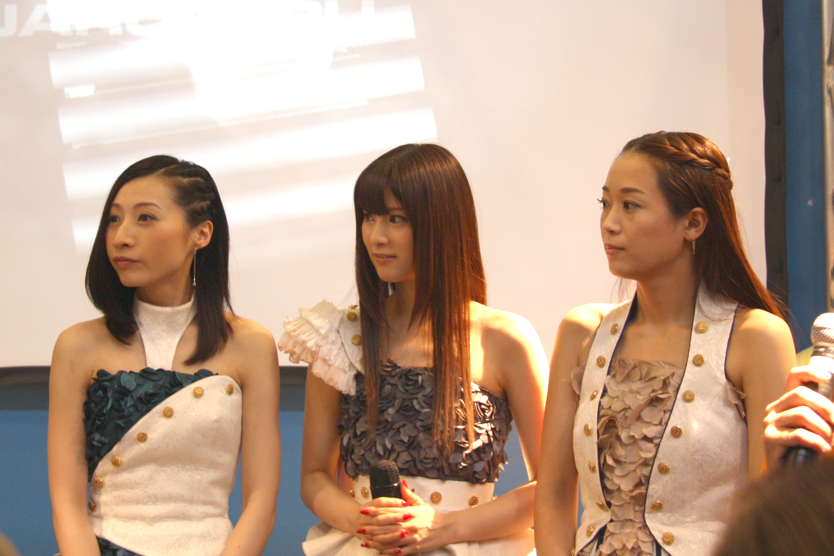 J-Pop trio Kalafina at Japan Expo 15th impact, during the Japan In Motion mini-event, on July, 6th 2014.